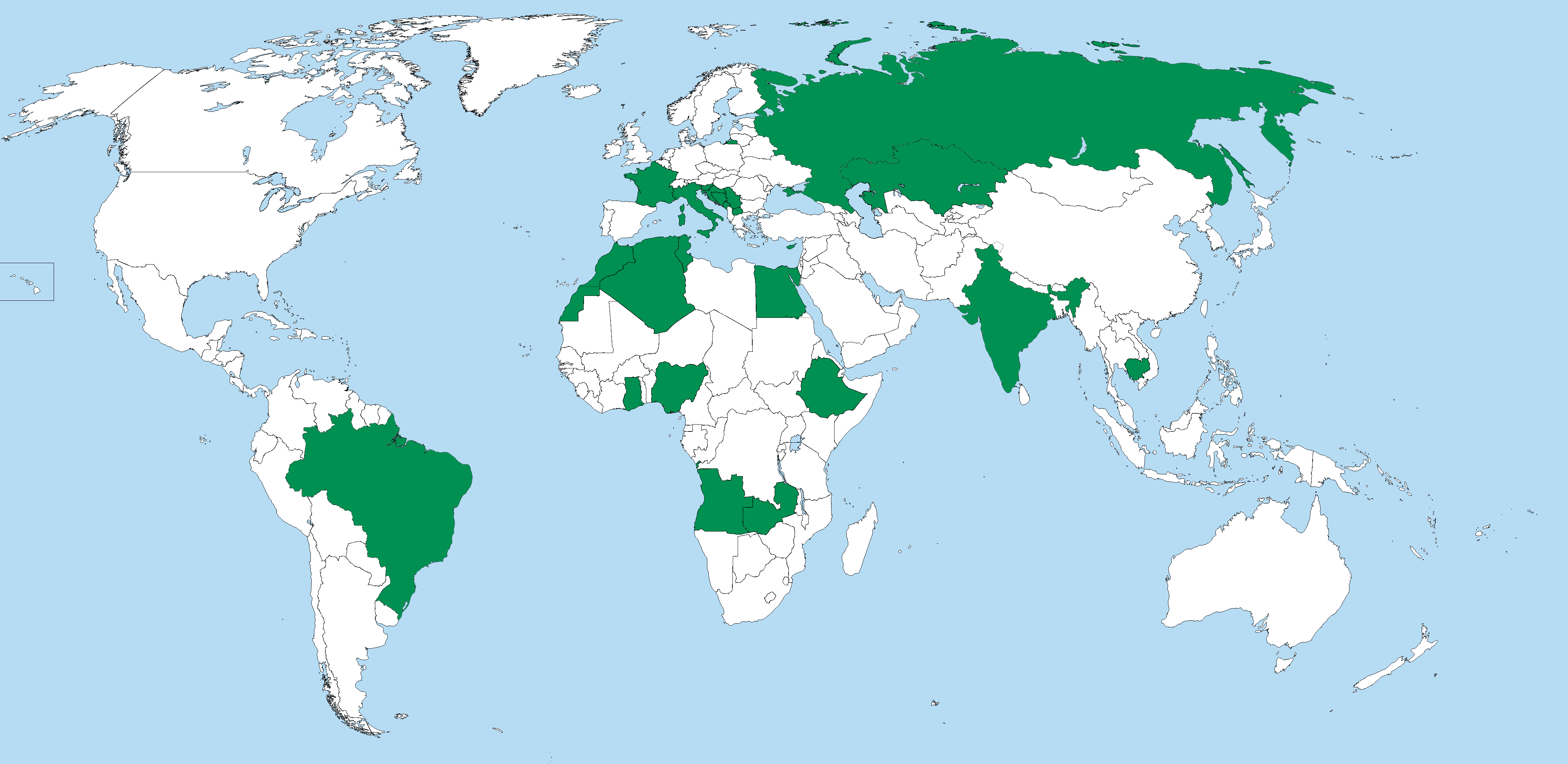 A map of the world's countries that contain streets named after Marshal Josip Broz Tito of Yugoslavia